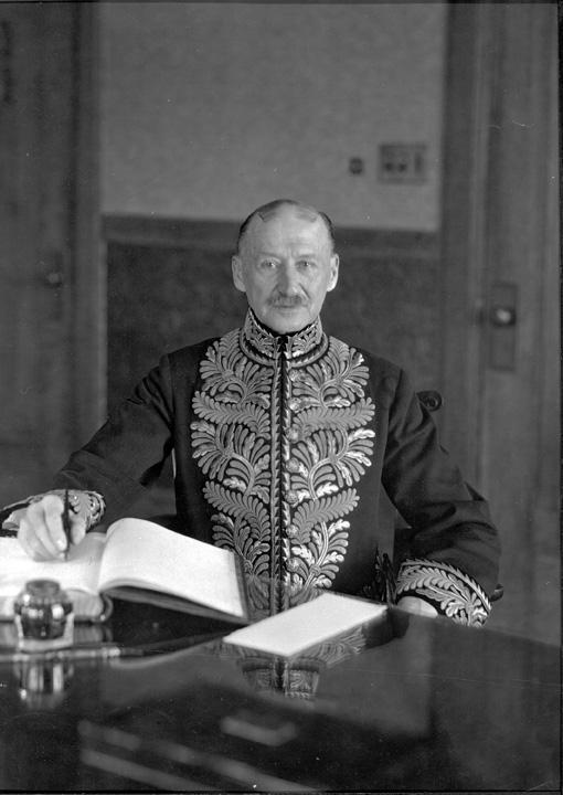 Portrait of Lieutenant Governor William Egbert at desk.